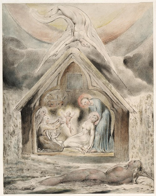 Watercolor Illustration to Milton's On the Morning of Christ's Nativity, by William Blake